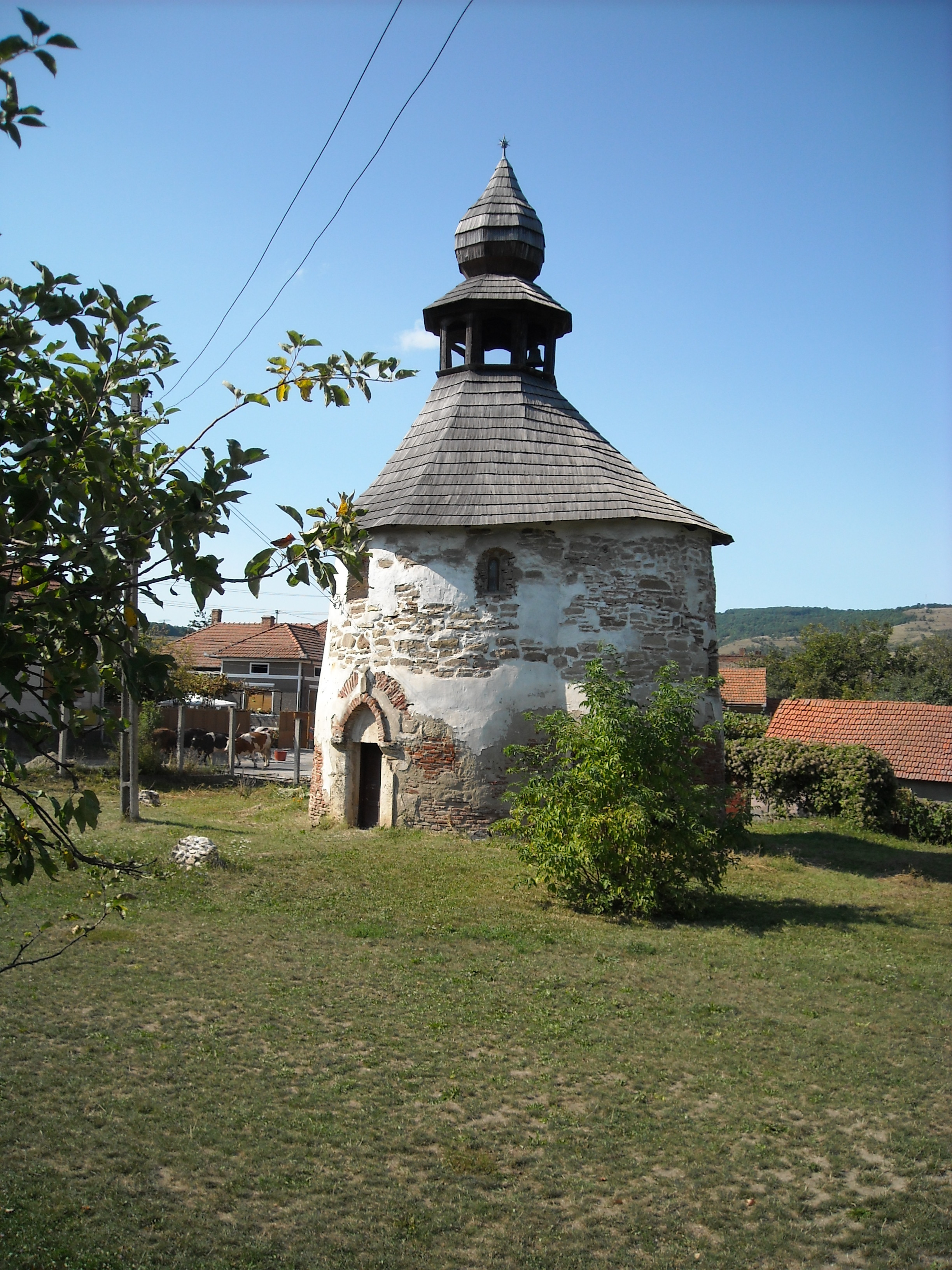 reformed chapel from the 11th–12th century in Geoagiu (Algyógy), Romania